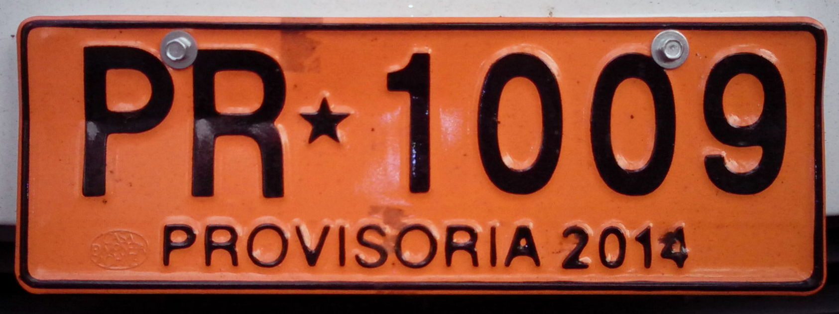 Chilean registration plate: provisional plate